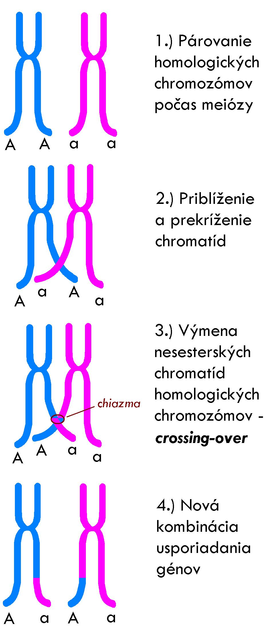 The scheme of crossing-over